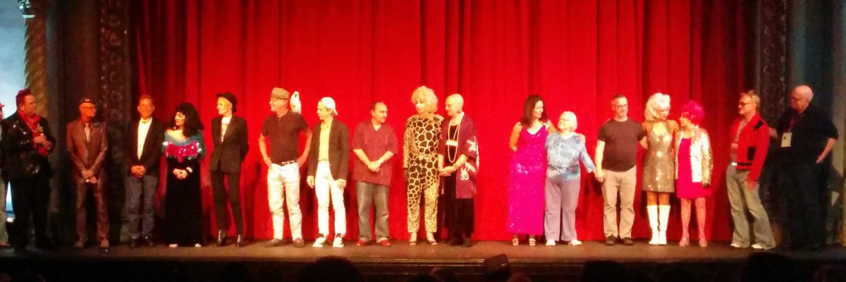 Cast and crew of Vegas in Space at the Victoria Theatre in San Francisco, California, United States